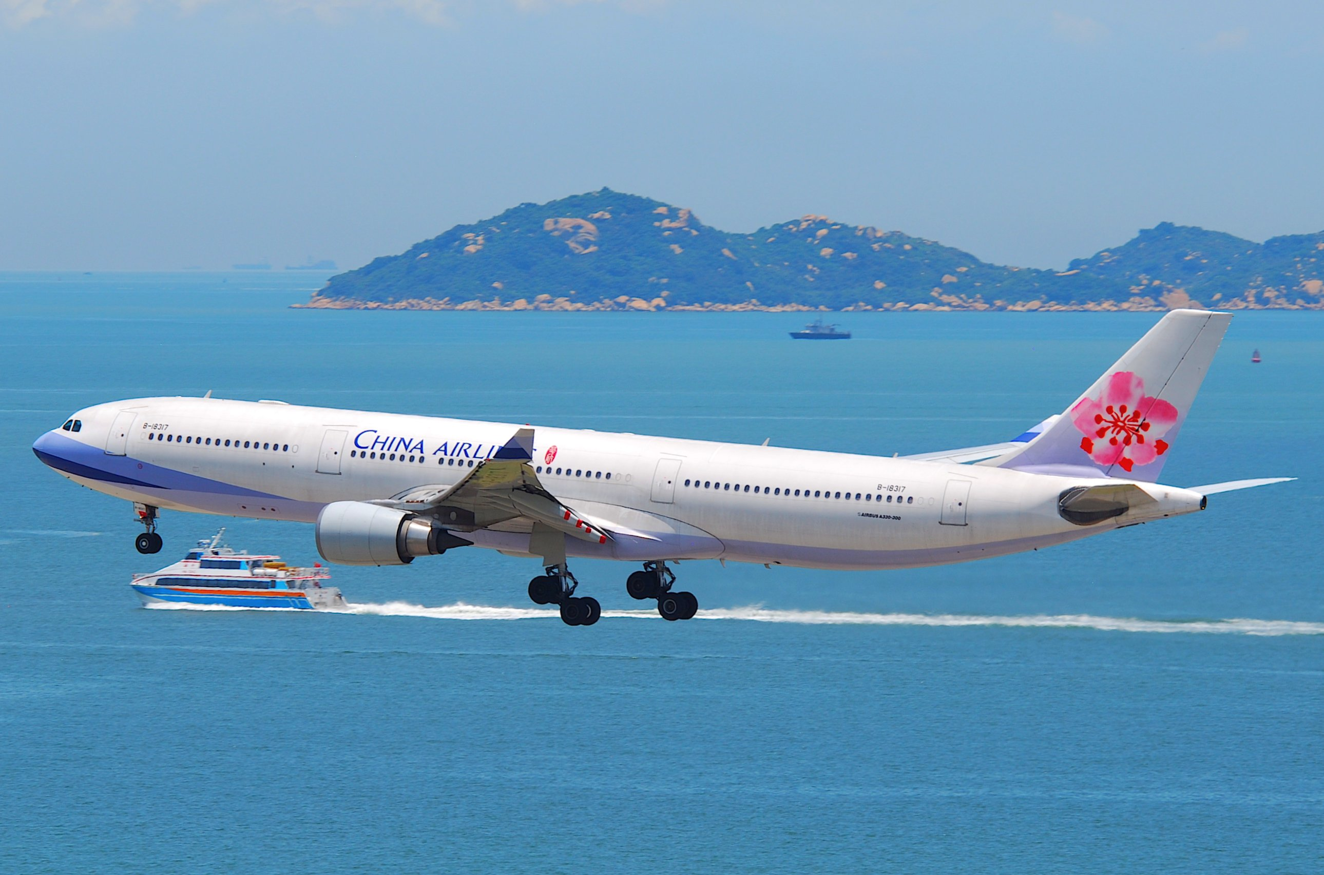 This Airbus A330-302 took its first flight on September 4, 2007...(c/n 861)